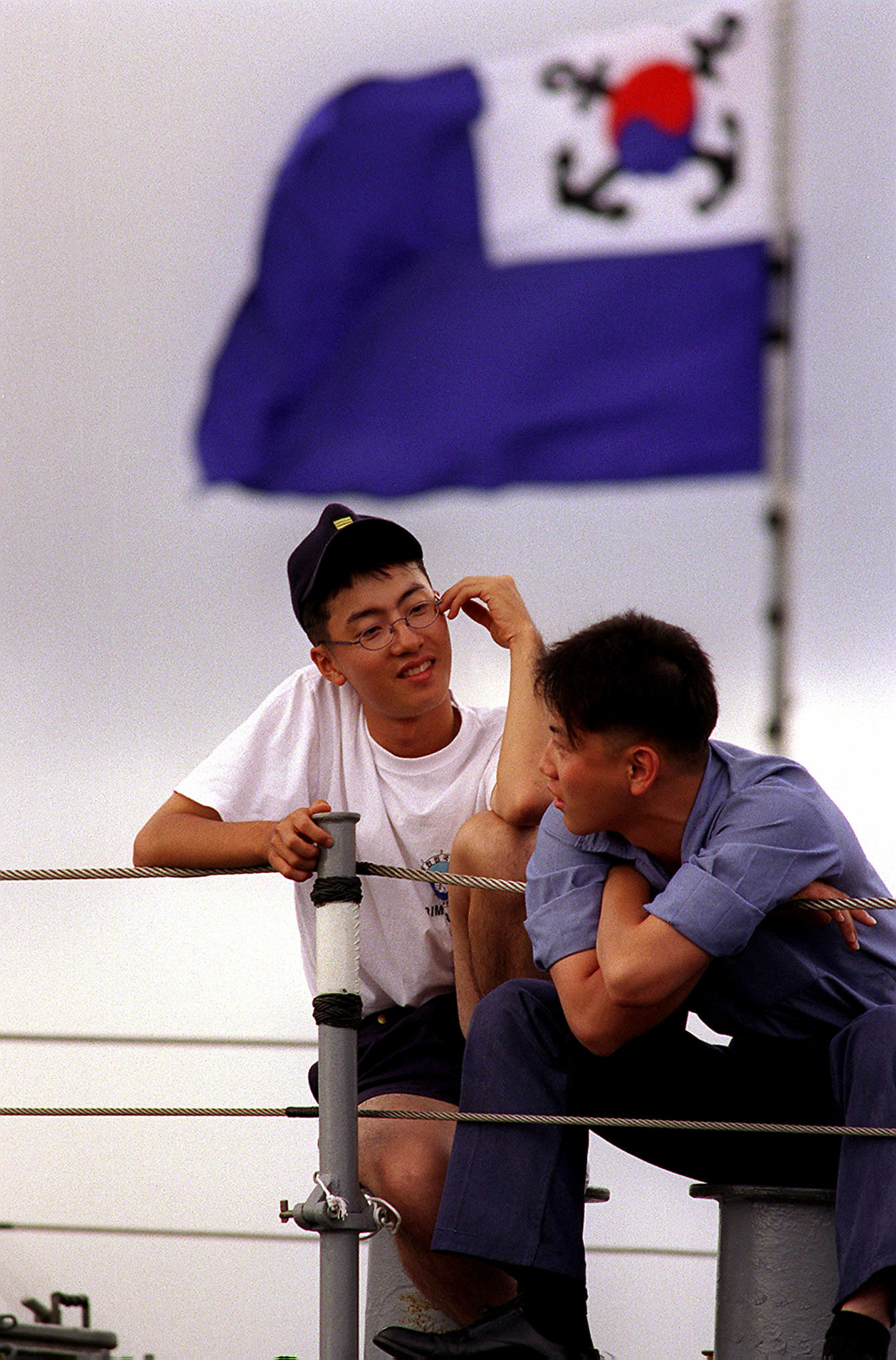 ID: DN-SD-00-01070 Service Depicted: Other Service 980708-N-2619S-002 Operation / Series: RIMPAC `98 Two Republic of Korea Navy sailors find the time to relax and talk about personal issues during the exercise RIMPAC 98. Location: PEARL HARBOR, HAWAII (HI) UNITED STATES OF AMERICA (USA)